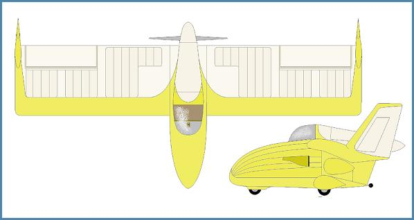 Al Backstorm WBP1 Flying Wing